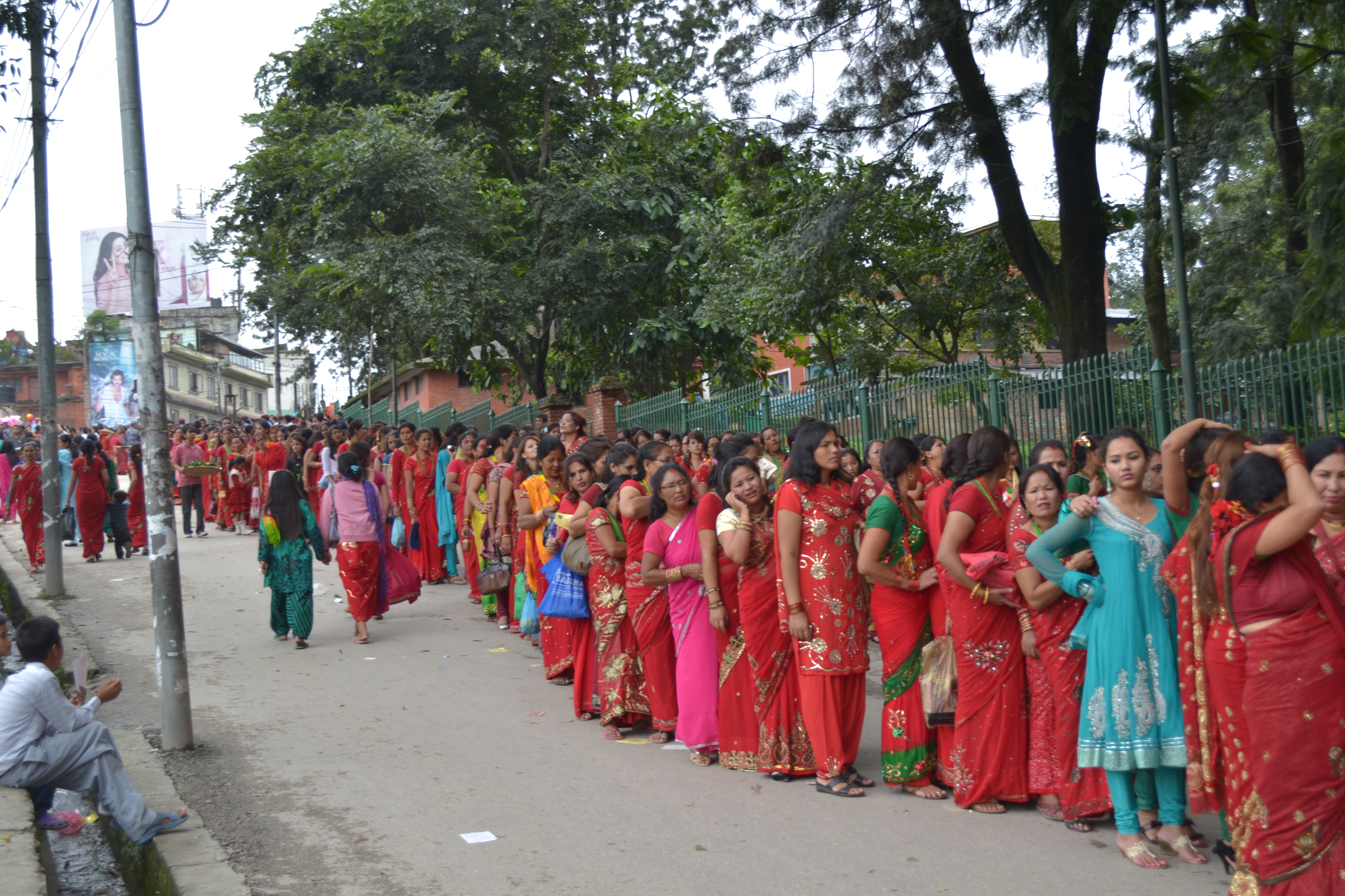 Queue at Pashupatinath at Teej